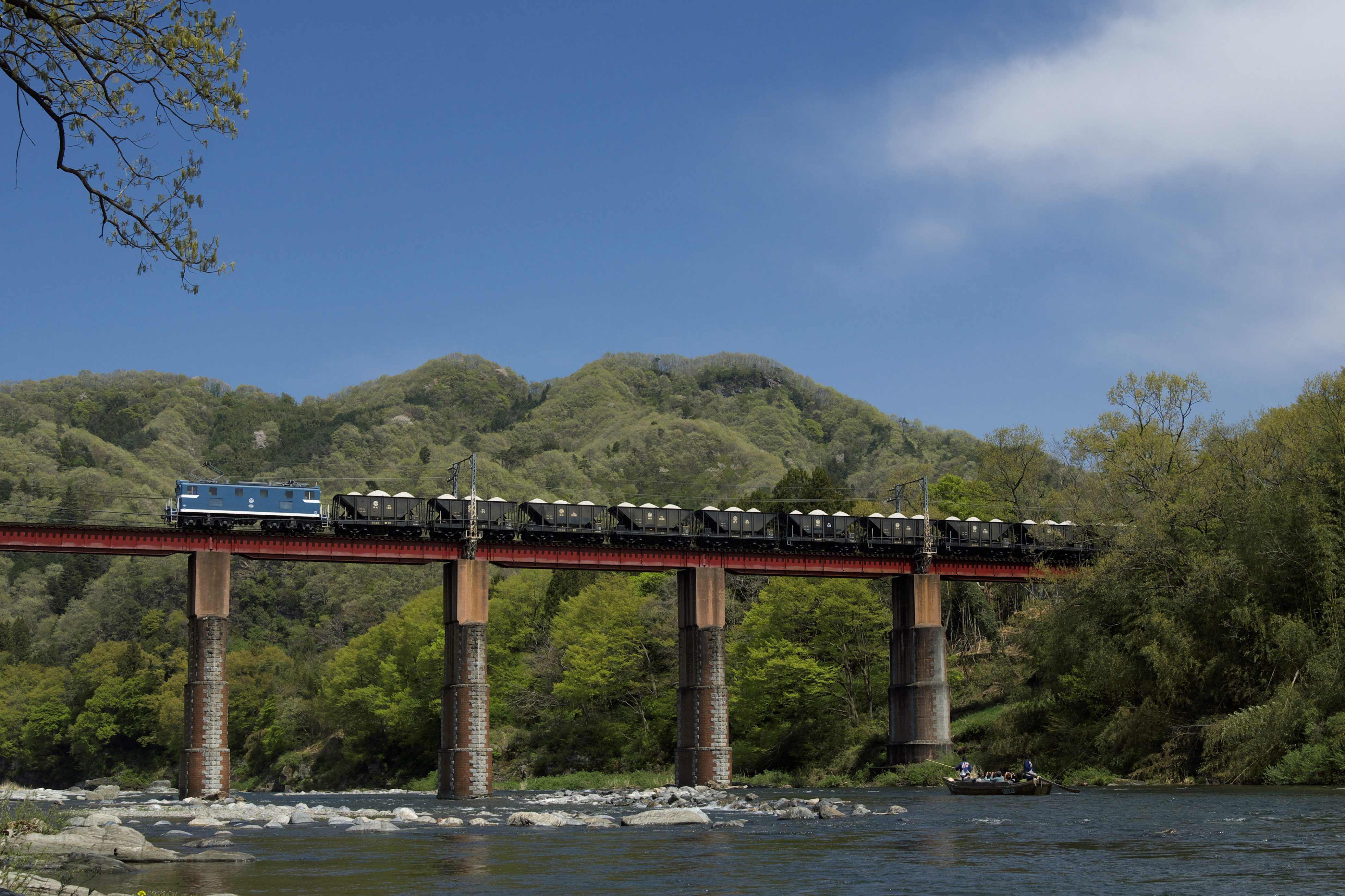 Chichibu Railway electric locomotive 504 hauls a limestone freight train across the Oyahana Viaduct between Kami-Nagatoro and Oyahana Stations on the Chichibu Main Line